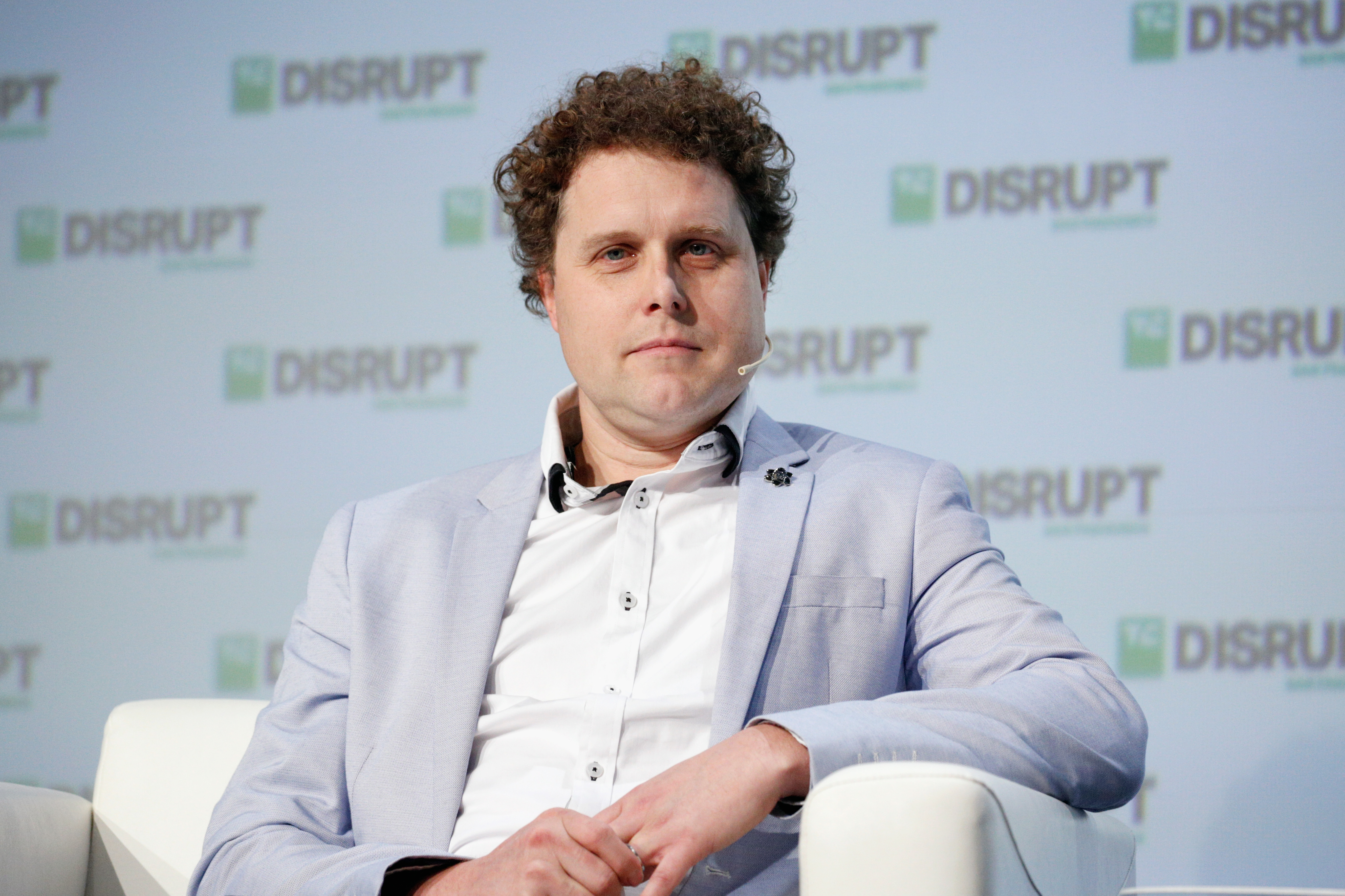 SAN FRANCISCO, CA - SEPTEMBER 05: Rocket Lab Founder & CEO Peter Beck speaks onstage during Day 1 of TechCrunch Disrupt SF 2018 at Moscone Center on September 5, 2018 in San Francisco, California. (Photo by Kimberly White/Getty Images for TechCrunch)